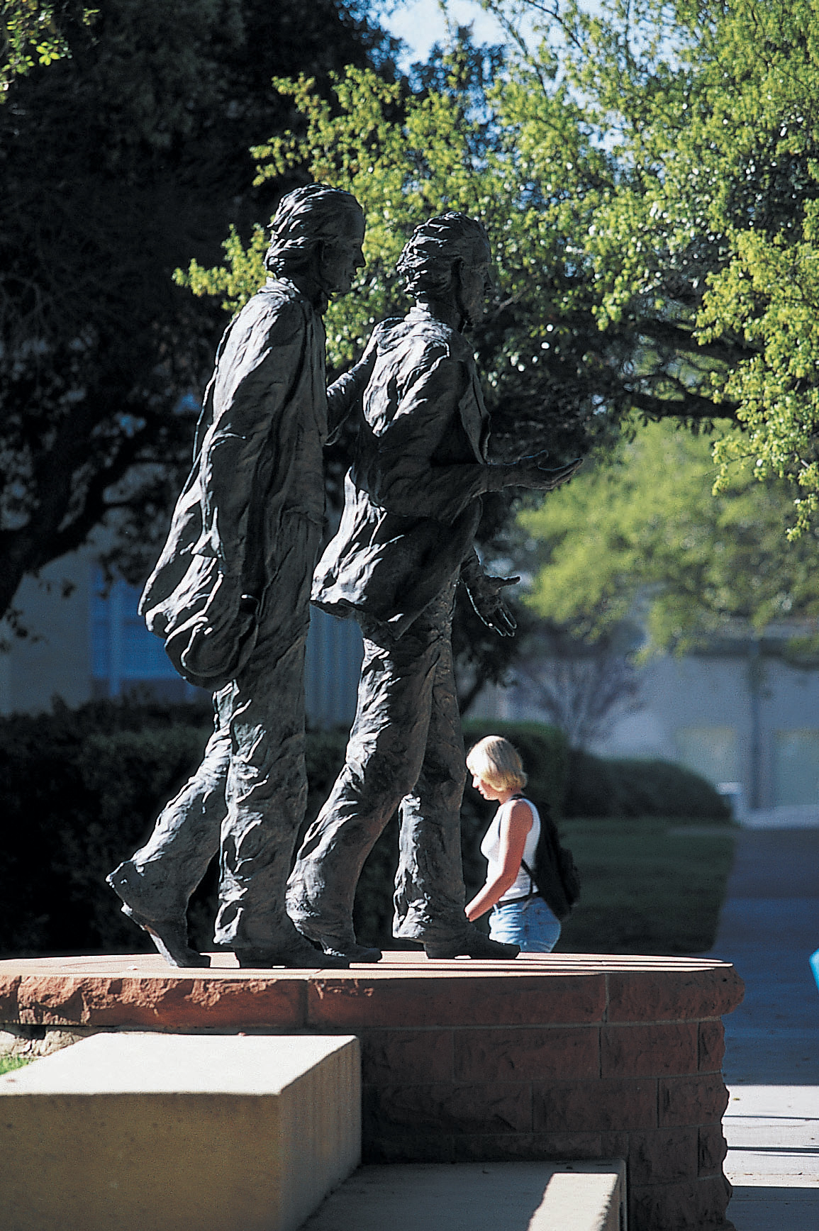 Brothers Addison and Randolph Clark founded what would later be known as Texas Christian University in 1873 in Thorp Spring, Texas. In 1910 the university moved to its permanent location in Fort Worth, Texas.